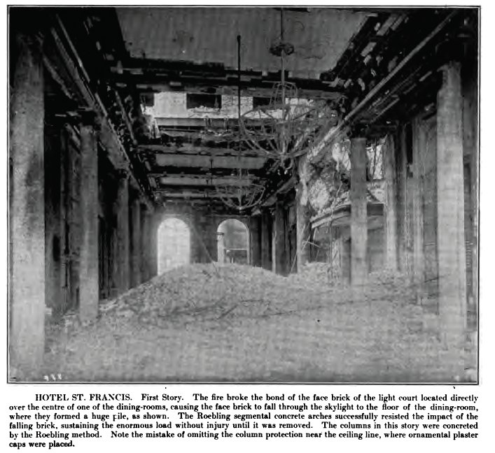 Photograph of damage to the dining room of the St. Francis Hotel, San Francisco, following the 1906 earthquake and fire. The damage shown was due to the subsequent fire as the hotel survived the earthquake relatively intact.